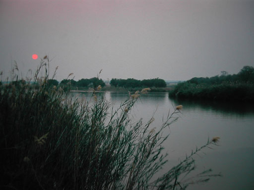 The Okavango River near Rundu, Namibia.